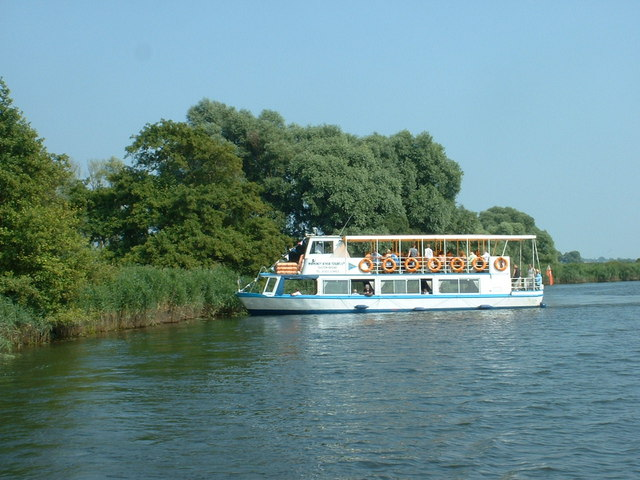 River Waveney. This is the end of the trip for the cruiser from Oulton Broad, shown here in the manoeuvre of turning round for the return home.